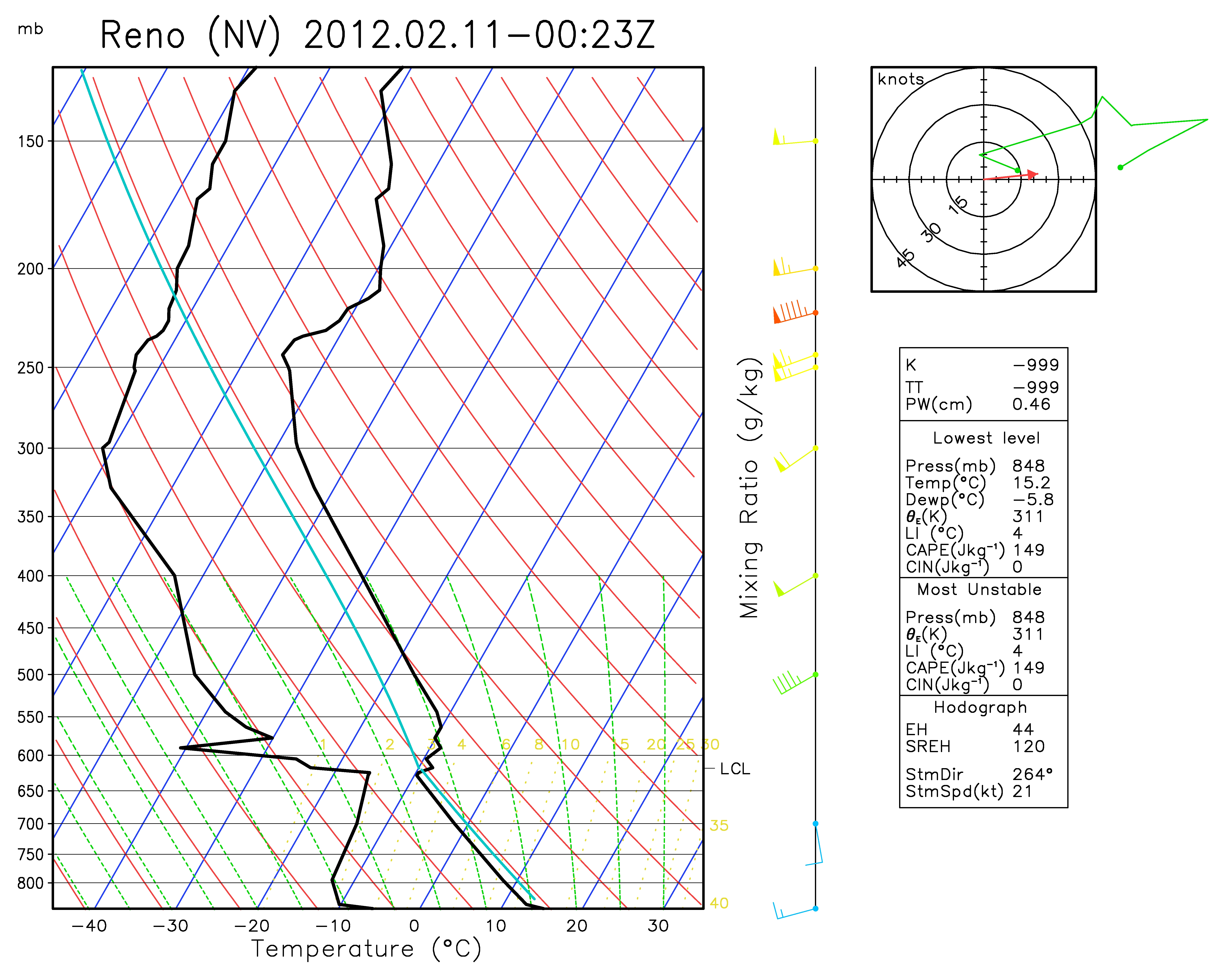 Skew T diagram at Reno (NV) on 10th February 2012. Strong SW wind aloft. Diagram created with grADS from public NOAA data.